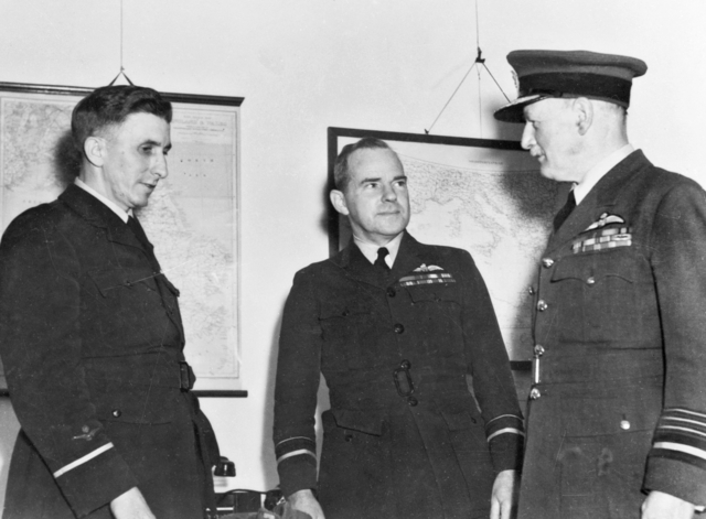 AWM Caption: "1942-05-12. AIR VICE-MARSHAL G. JONES, D.F.C. NEW CHIEF OF THE AUSTRALIAN AIR STAFF (LEFT) WITH AIR VICE-MARSHAL W.D. BOSTOCK RAAF, CHIEF OF STAFF TO LIEUT.-GENERAL GEORGE H. BRETT (CENTRE) AND AIR CHIEF MARSHAL SIR CHARLES BURNETT (RIGHT) FORMER CHIEF OF AUSTRALIAN AIR STAFF".